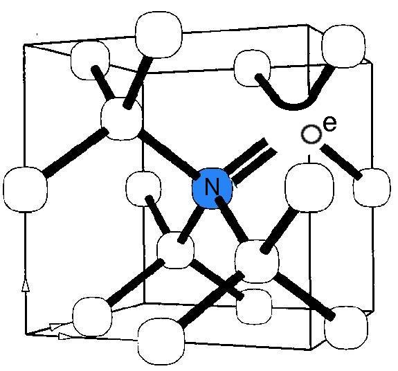 model of N-V- center in diamond